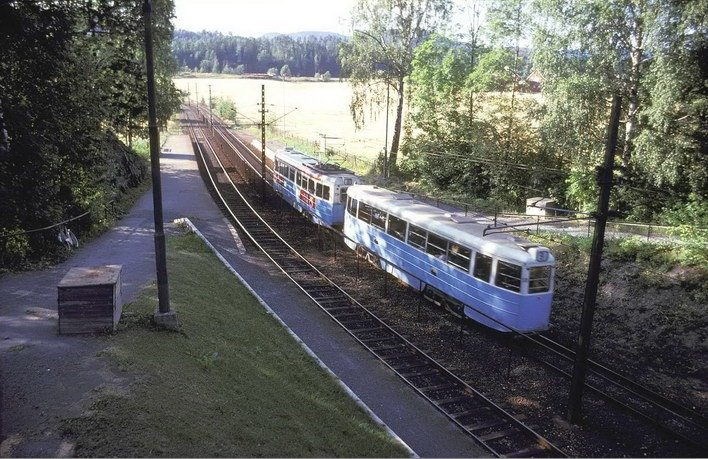 Tram 581 type STBO at Gjønnes Station of the Kolsås Line, Bærum, Norway.